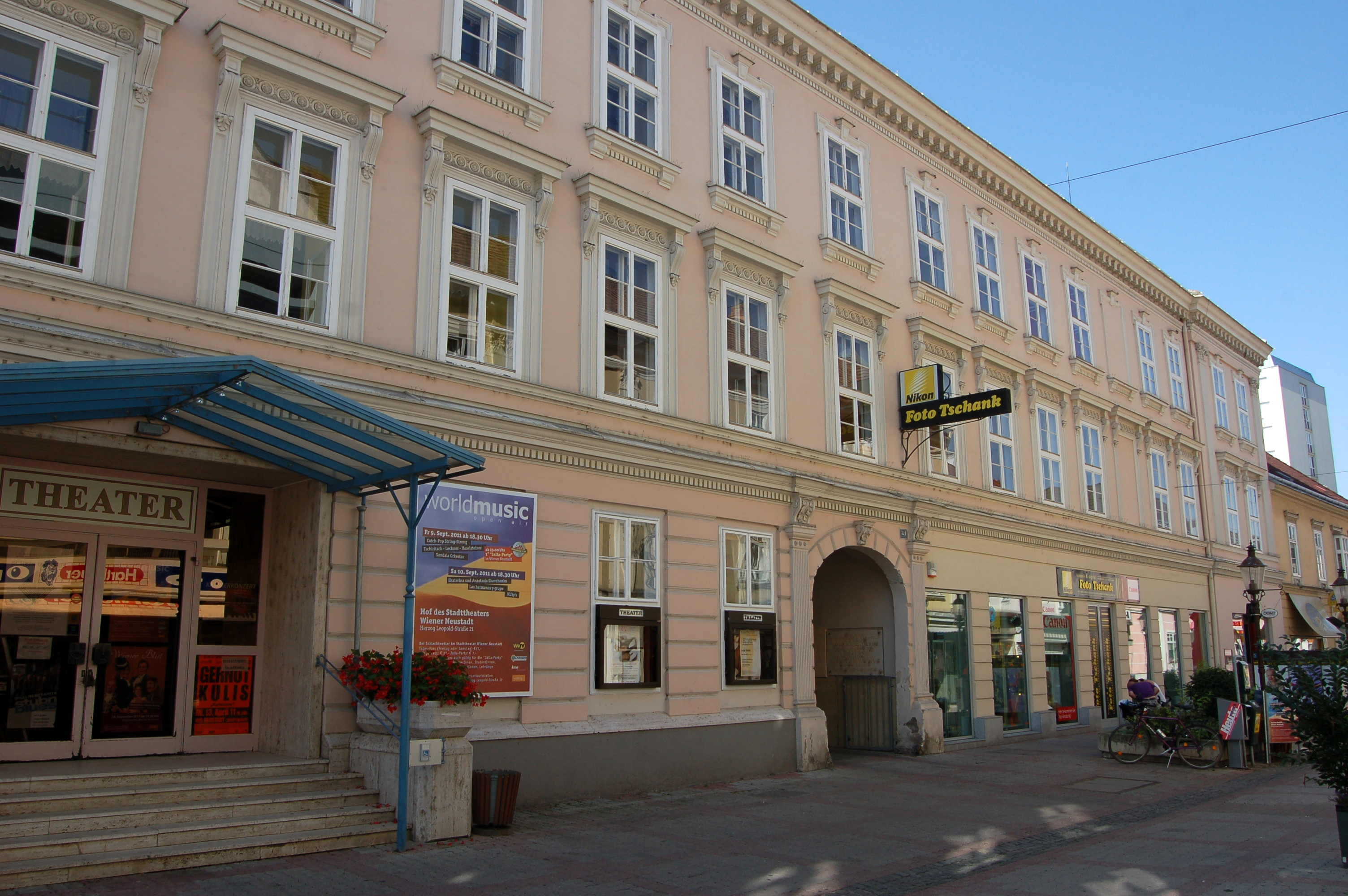 Former Carmelite nuns' convent in Herzog-Leopold-Strasse 21, Wiener Neustadt, Lower Austria